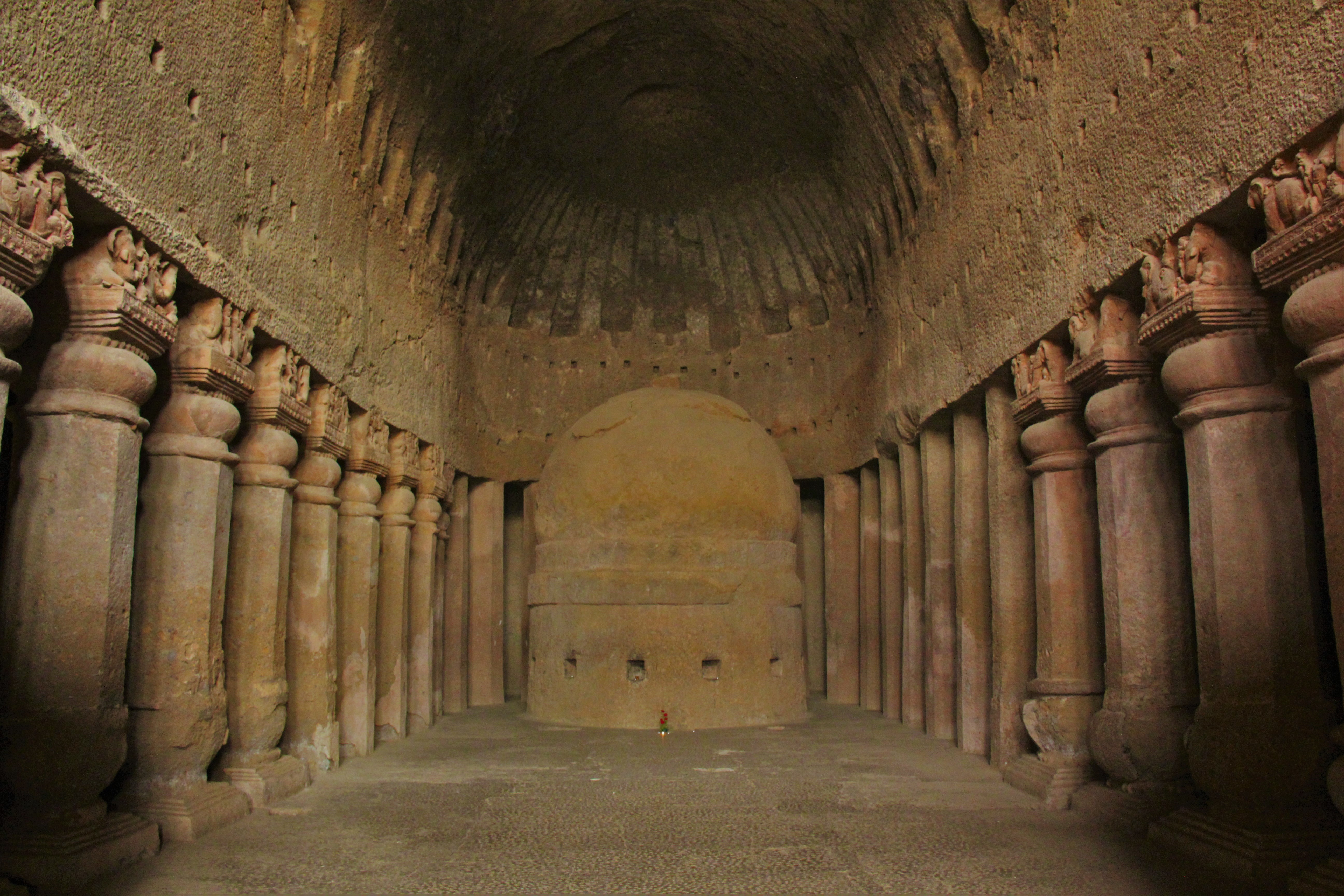 Prayer hall with Stupa in cave 03 of Kanheri Caves